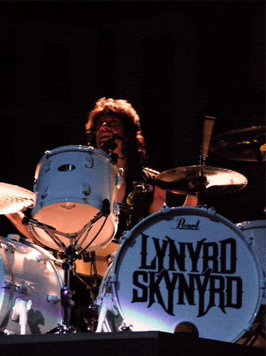 Birmingham, Alabama's City Stages 2009 Miller Lite Stage